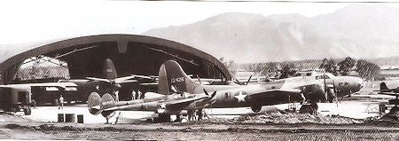 Boeing B-17s at Tontourta, New Caledonia, August 1942. Boeing B-17E 41-2426 of 11th Bomb Group, 43d Bomb Squadron identifiable